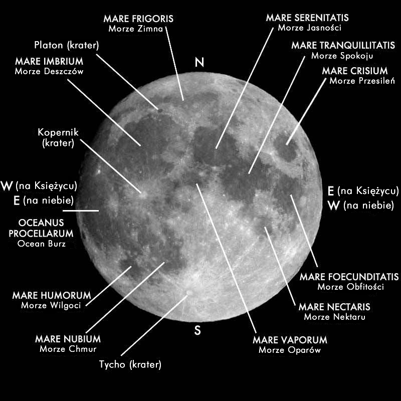 Lunar nearside with major maria and craters labeled